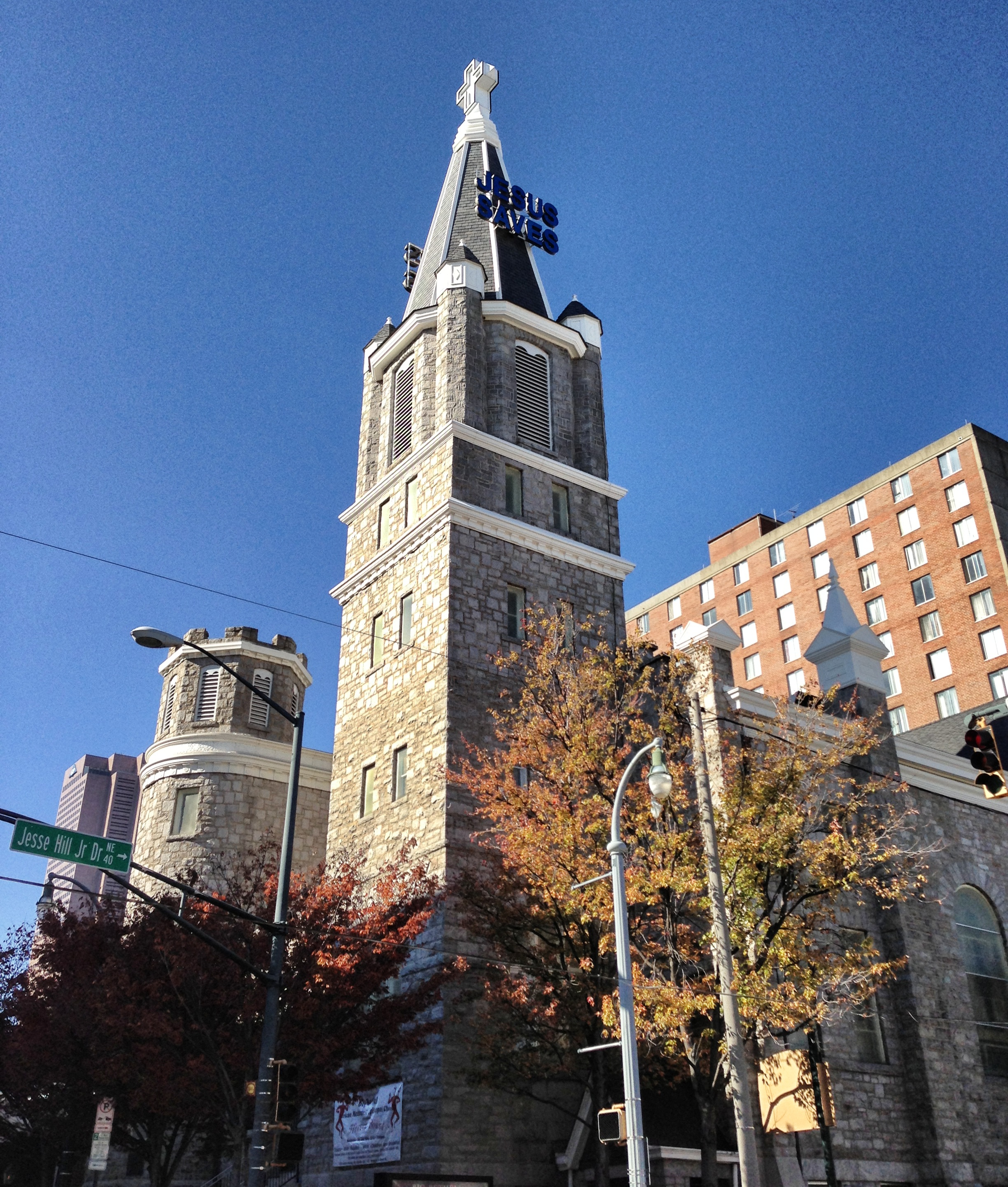 Big Bethel AME Church